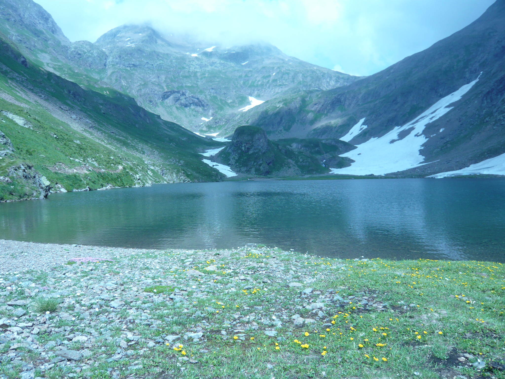 Barbellino natural lake. On the bottom Torena mount.